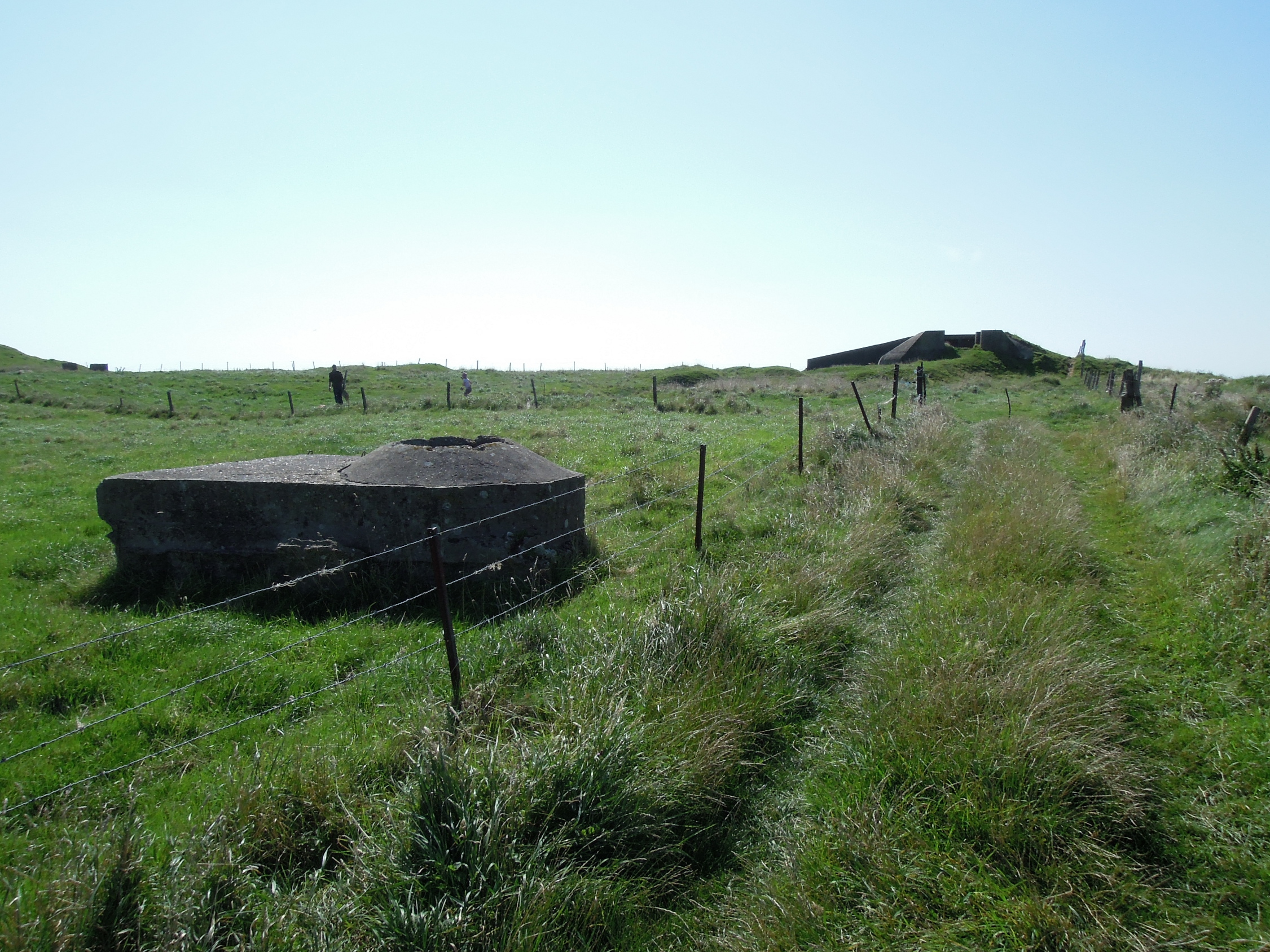 Basement for a Freya radar and garage for a searchlight. Parts of the Atlantic wall radar station "Stützpunkt Auerhahn".